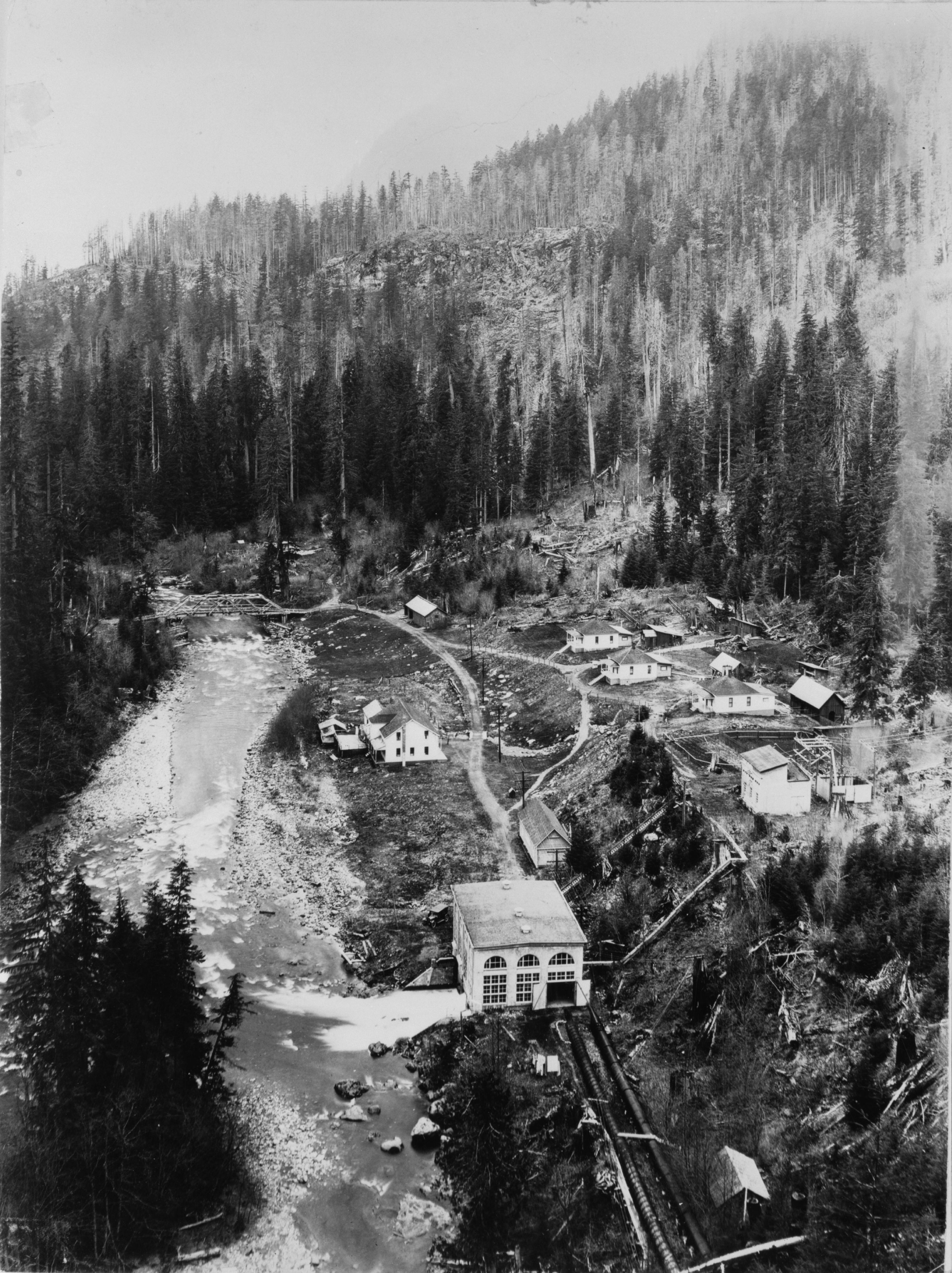 Nooksack Falls Hydroelectric Plant, Route 542, Glacier vicinity, Whatcom County, WA Aerial View circa 1906